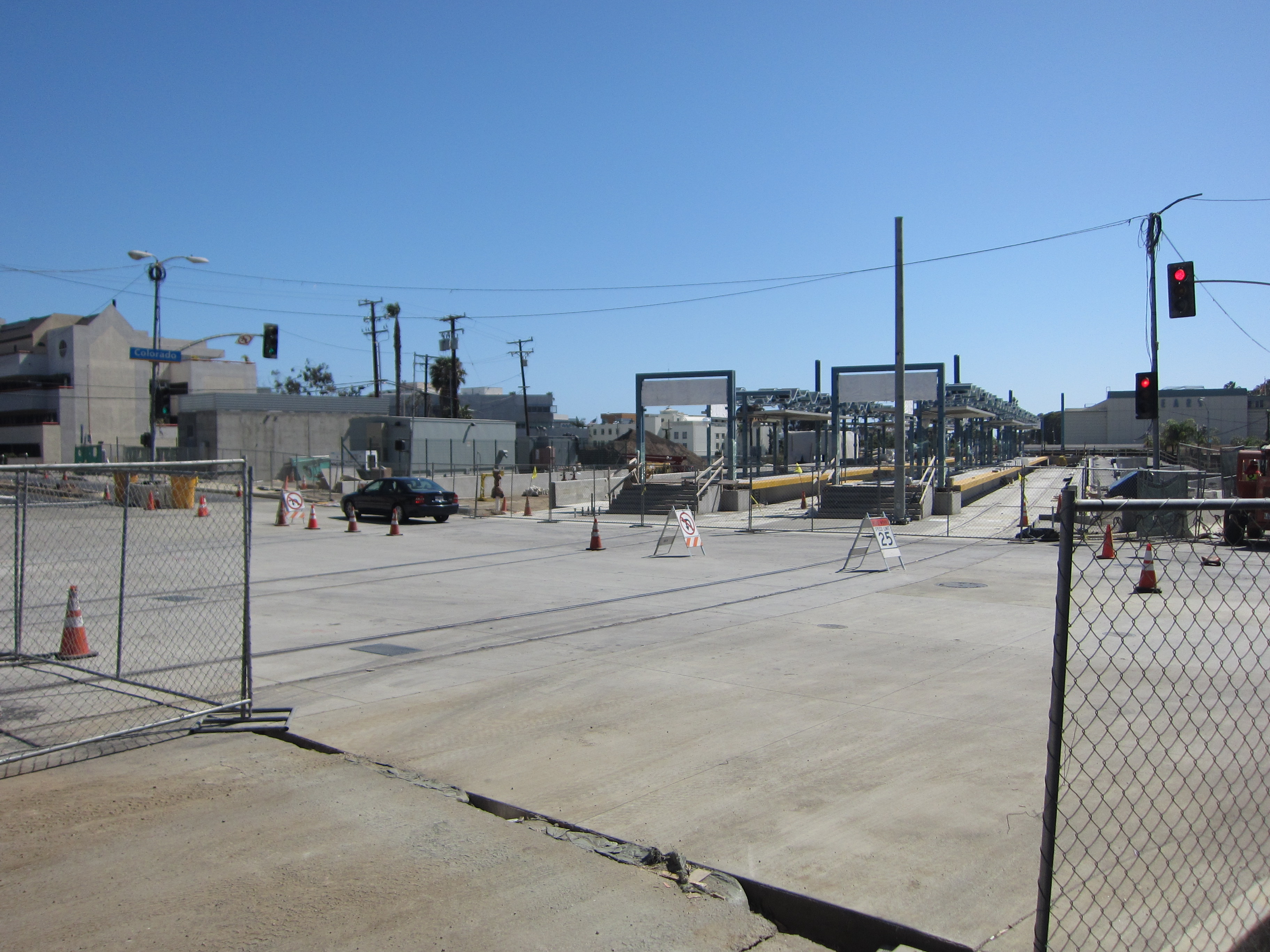 Downtown Santa Monica metro light rail station under construction. Picture taken from 5th Street/Colorado Avenue.